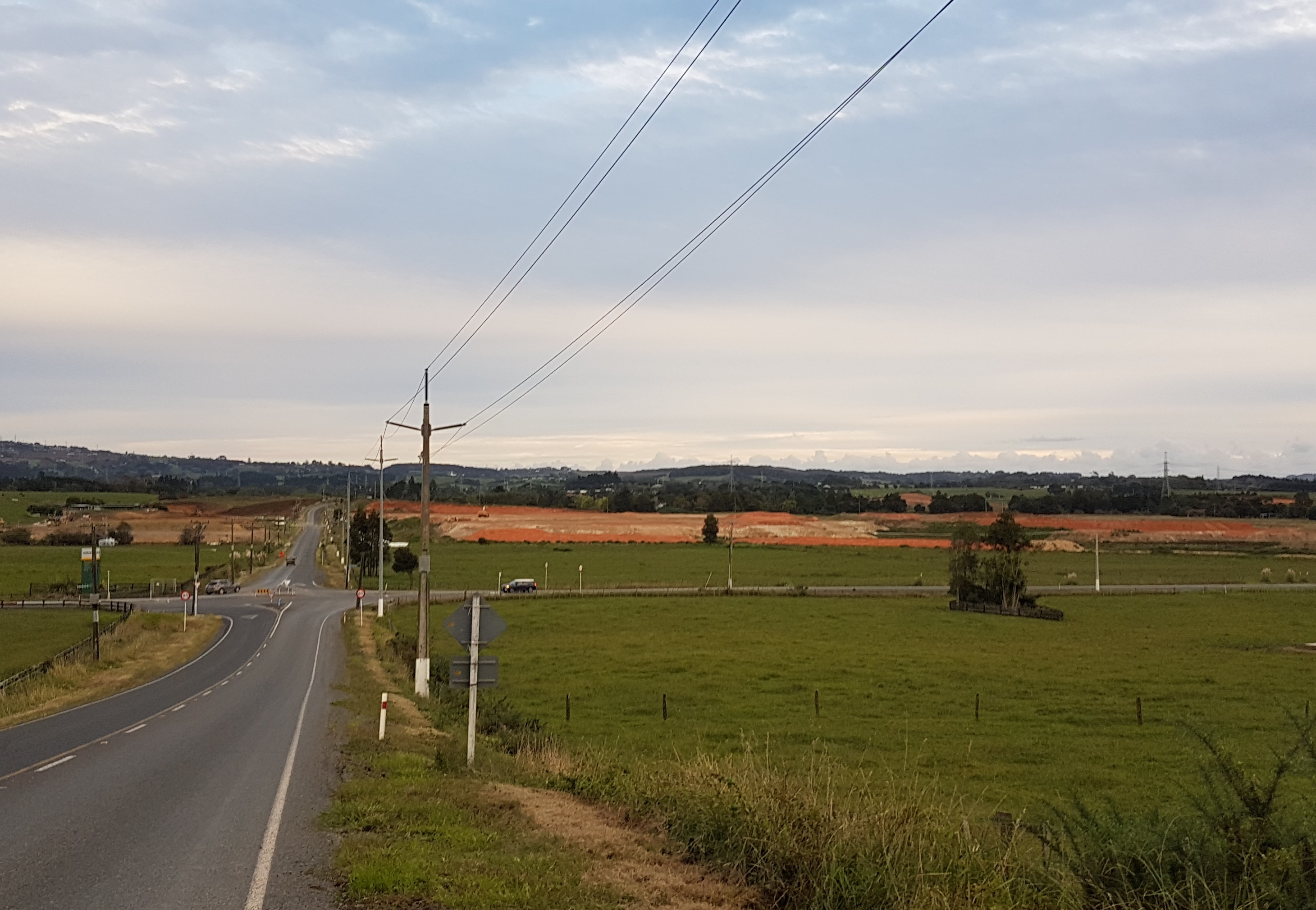 Excavation works at Drury South Industrial Park, March 2018